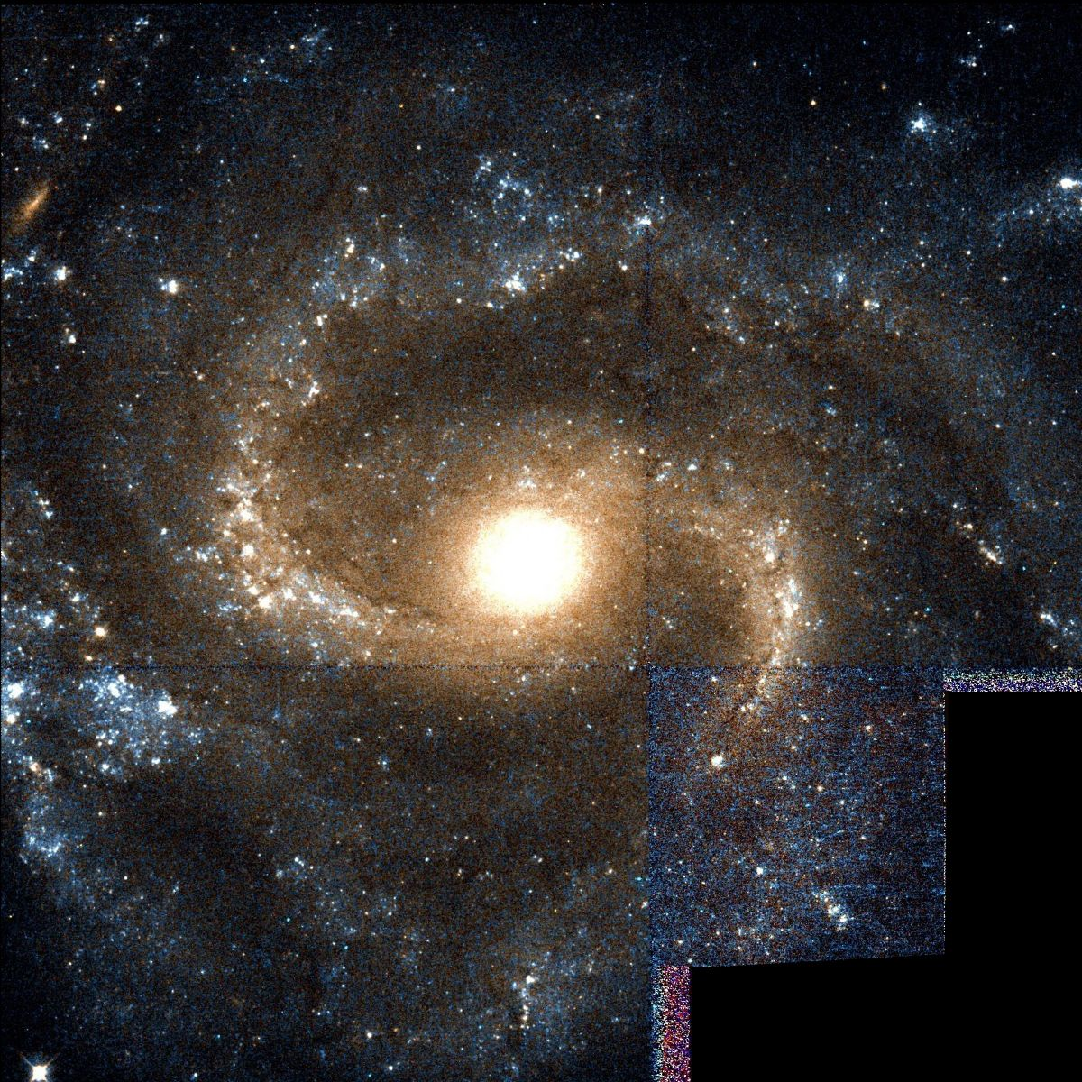 NGC 1042 spiral galaxy in the constellation Cetus; Hubble Space Telescope; 2′ view